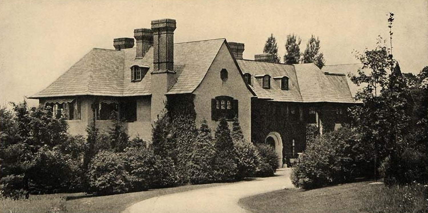 Almondbury House, Ithan, Philadelphia, 1926 when it was owned by George Brooke